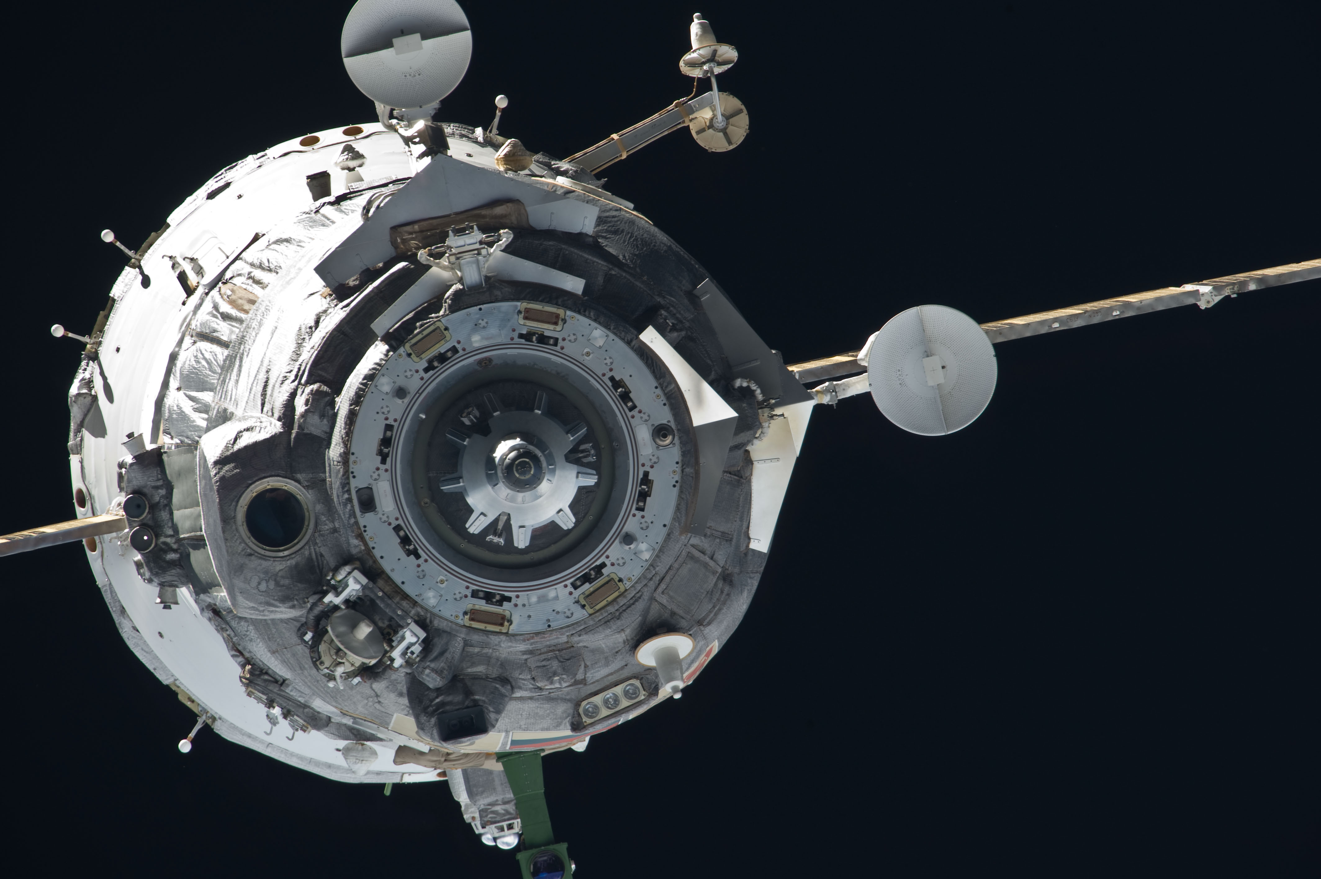 The Soyuz TMA-20 spacecraft departs from the International Space Station on May 23, 2011. Onboard are three members of Expedition 27 -- Russian cosmonaut Dmitry Kondratyev, Expedition 27 and Soyuz commander; NASA astronaut Cady Coleman and European Space Agency astronaut Paolo Nespoli, both flight engineers. Kondratyev was at the controls of the spacecraft as it undocked at 5:35 p.m. (EDT) from the station's Rassvet module. The crew landed safely at 10:27 p.m. southeast of the town of Dzhezkazgan, Kazakhstan.